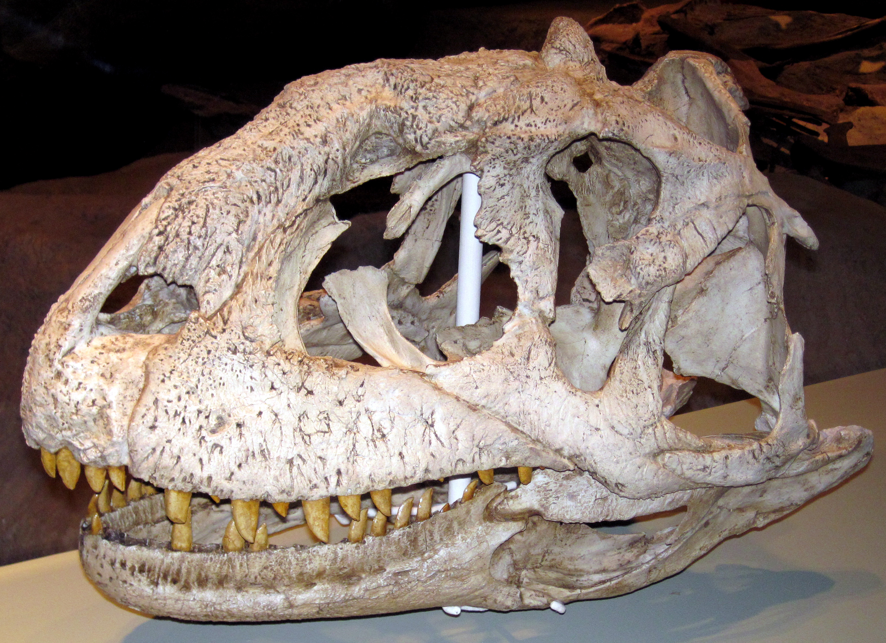 Majungasaurus crenatissimus (Depéret, 1896) theropod dinosaur skull (cast) from the Cretaceous of Madagascar (public display, FMNH PR 2100, Field Museum of Natural History, Chicago, Illinois, USA). Stratigraphy: Maevarano Formation, Campanian Stage (?), Upper Cretaceous Locality: near the town of Berivotra, northern Mahajunga Province, northern Madagascar Theropod were small to large, bipedal dinosaurs. Almost all known members of the group were carnivorous (predators and/or scavengers). They represent the ancestral group to the birds, and some theropods are known to have had feathers. Some of the most well known dinosaurs to the general public are theropods, such as Tyrannosaurus, Allosaurus, and Spinosaurus.